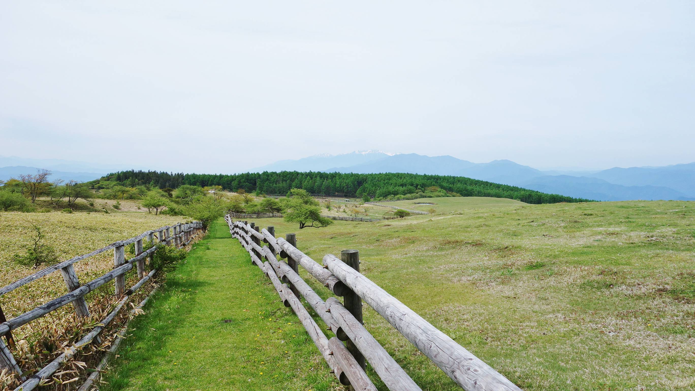 Mount Takabocchi.